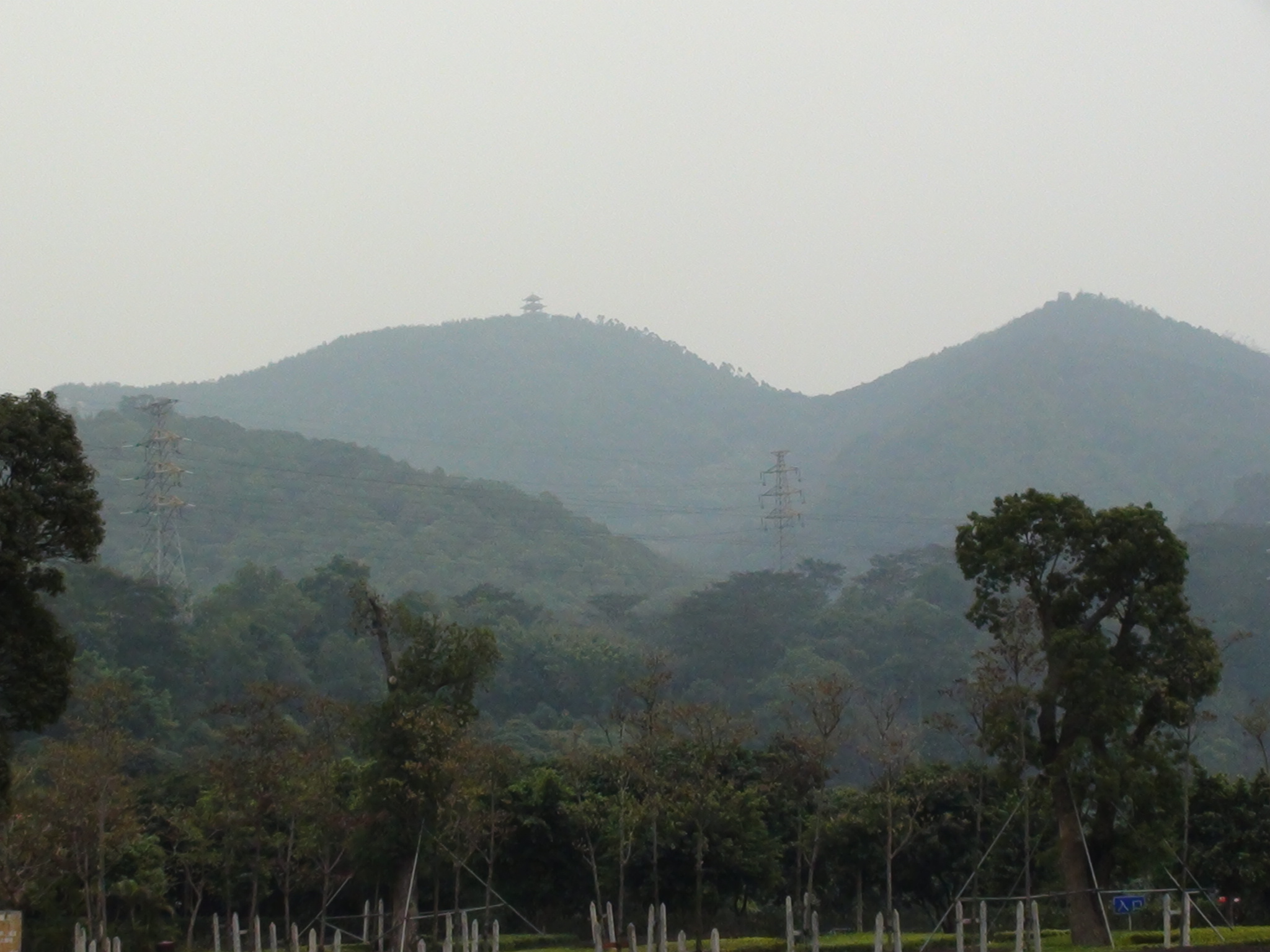 Fenghuang Mountain